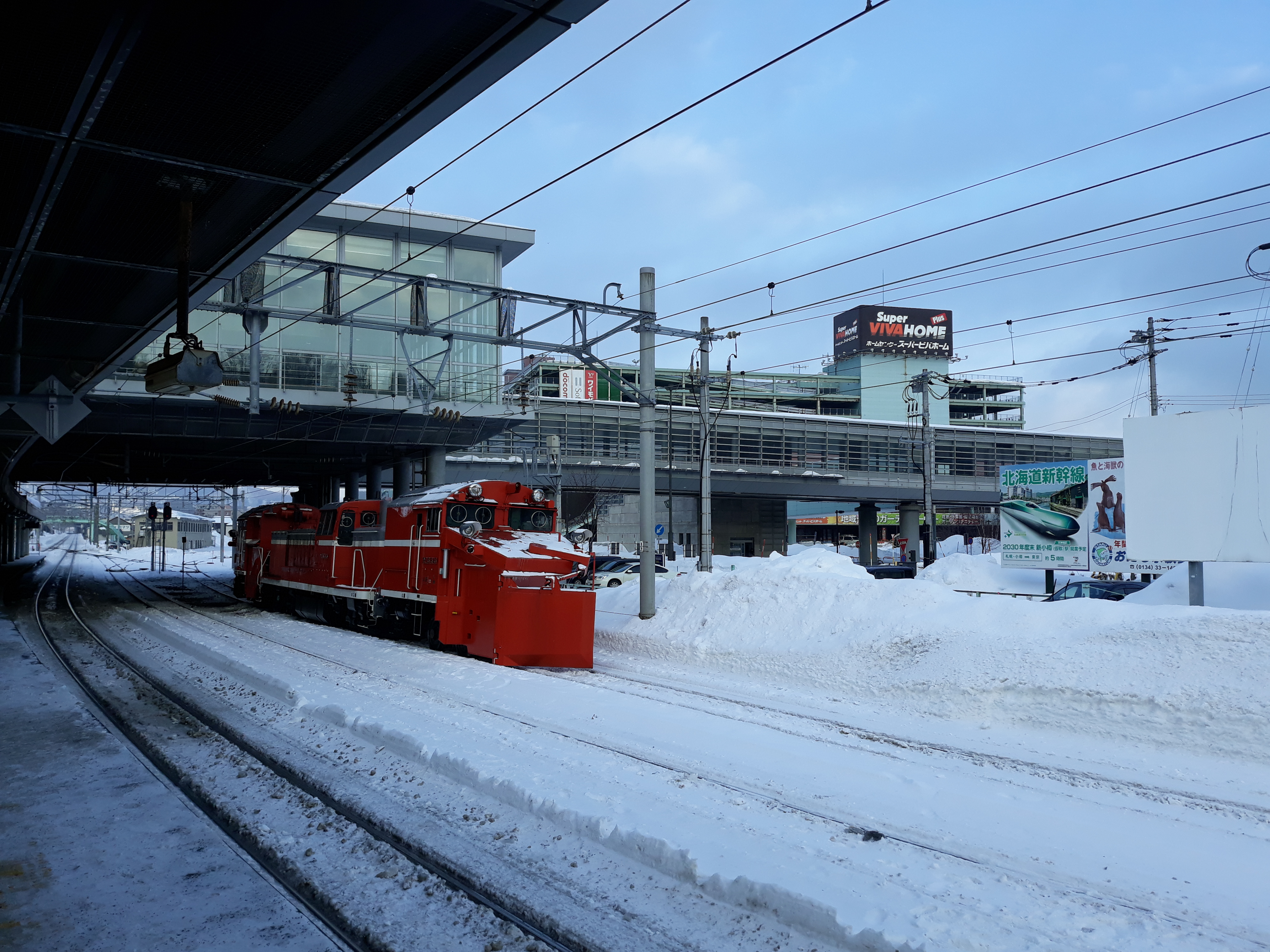 Otaruchikko Station at Winter.